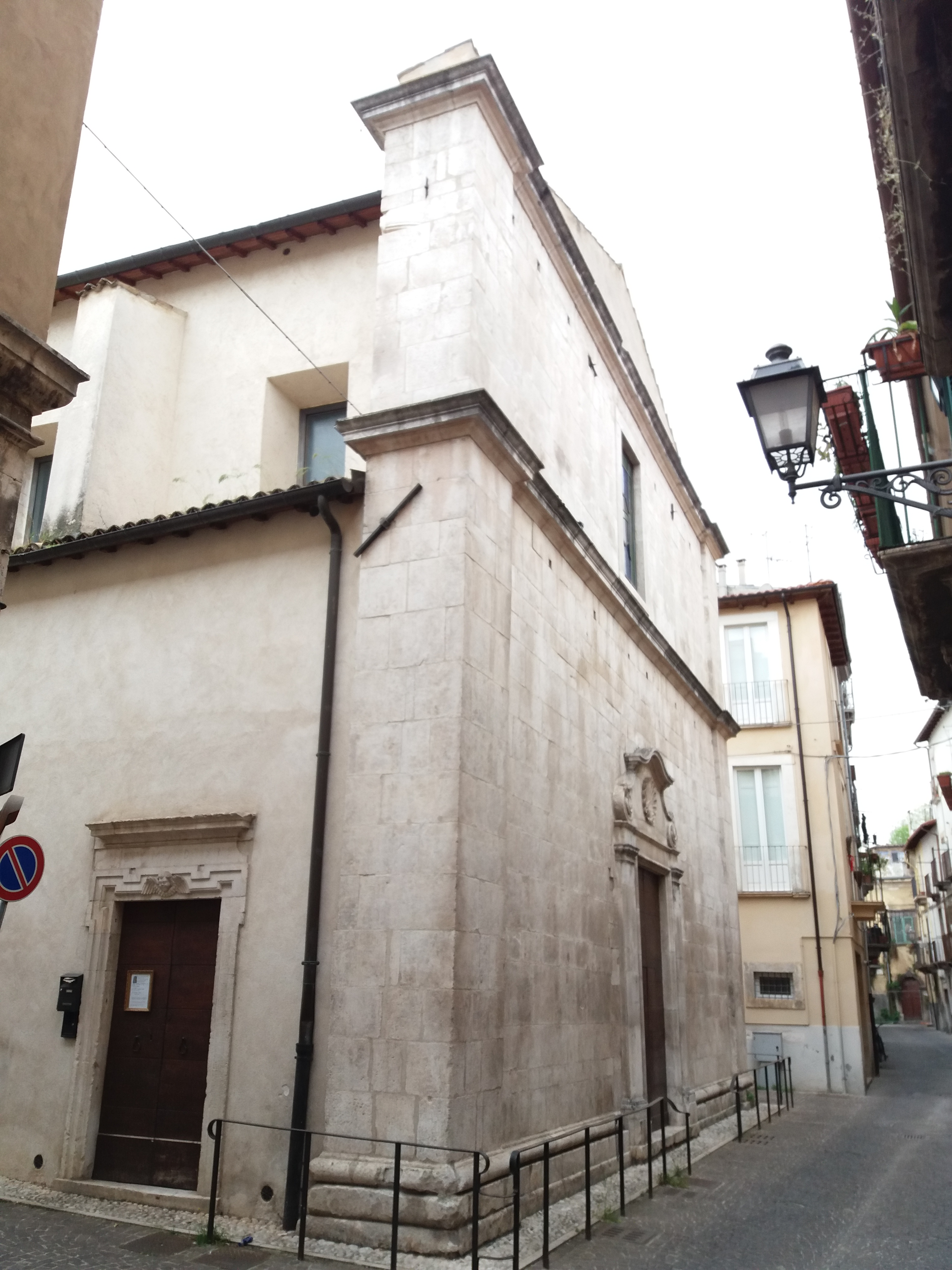 Sulmona: Chiesa di San Gaetano